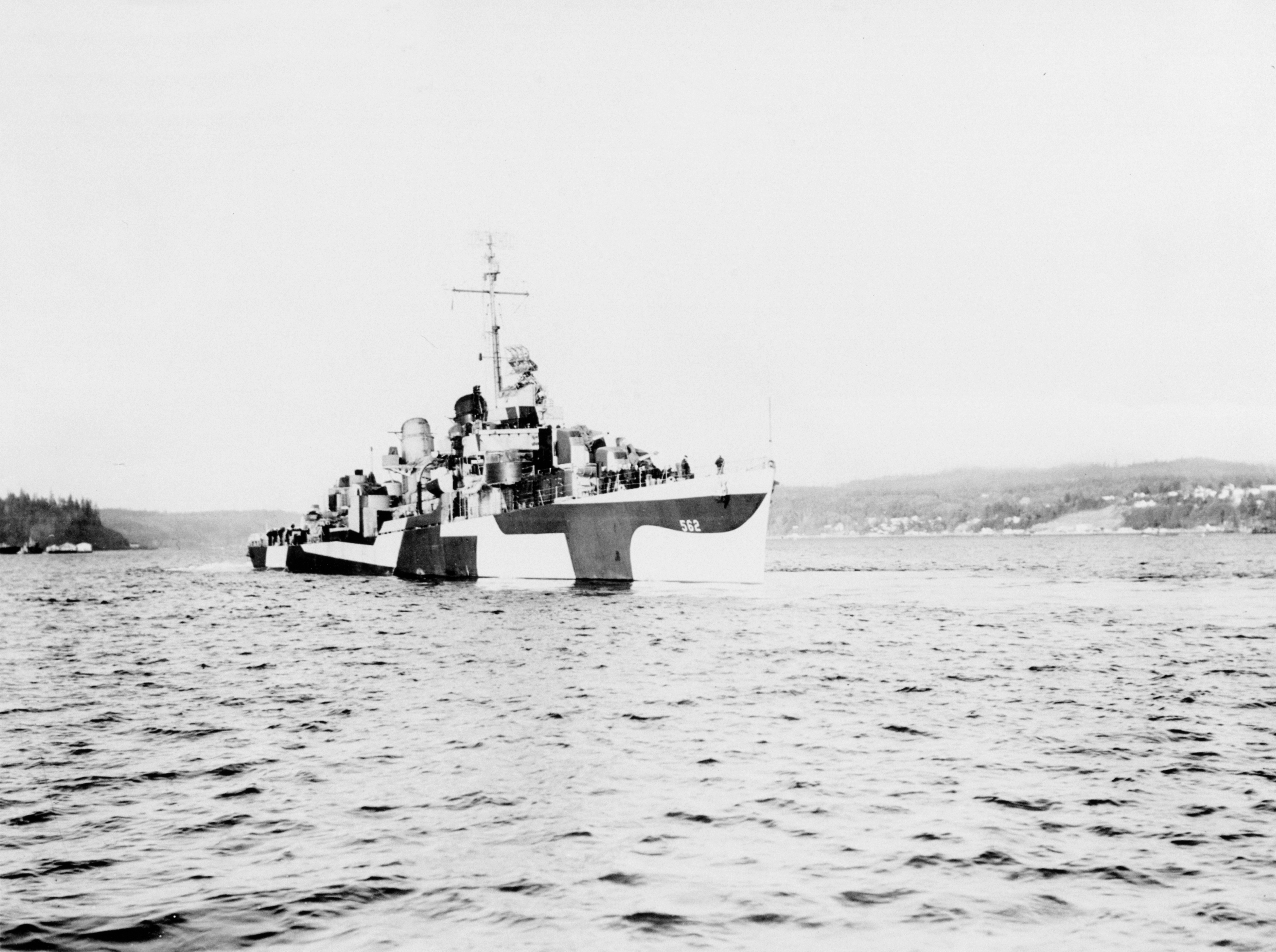 The U.S. Navy destroyer USS Robinson (DD-562) off the Puget Sound Naval Shipyard, Washington (USA), on 8 April 1944. She is wearing Camouflage Measure 32, Design 13D.